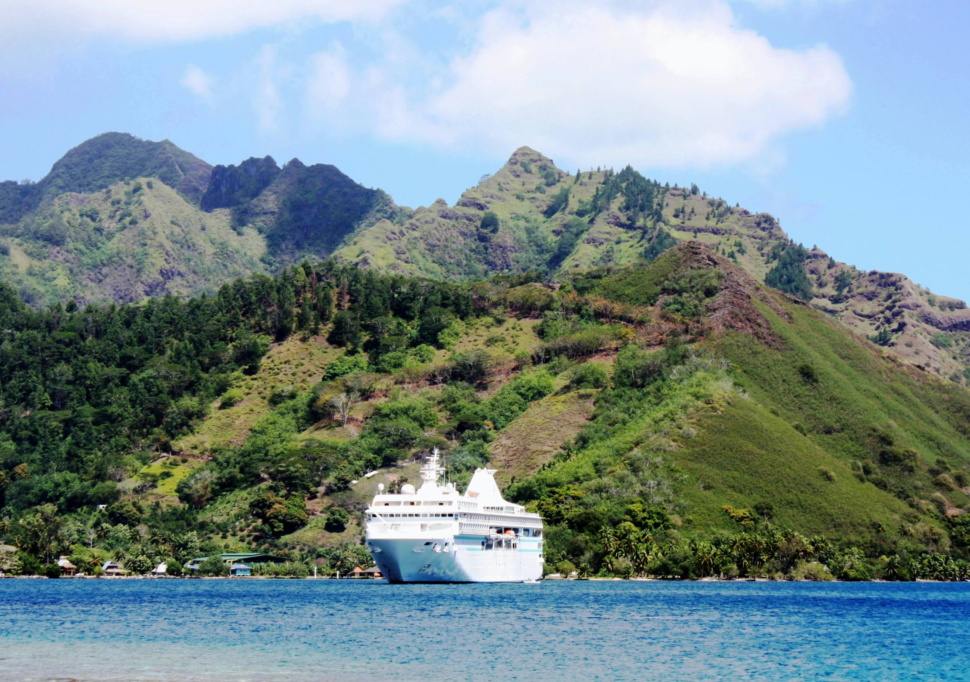 DSC00051/French Polynésia/Mooréa Island/Cook Bay